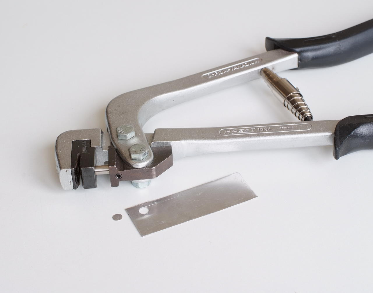 Lochzange mit Blech / hole punch with metal sheet